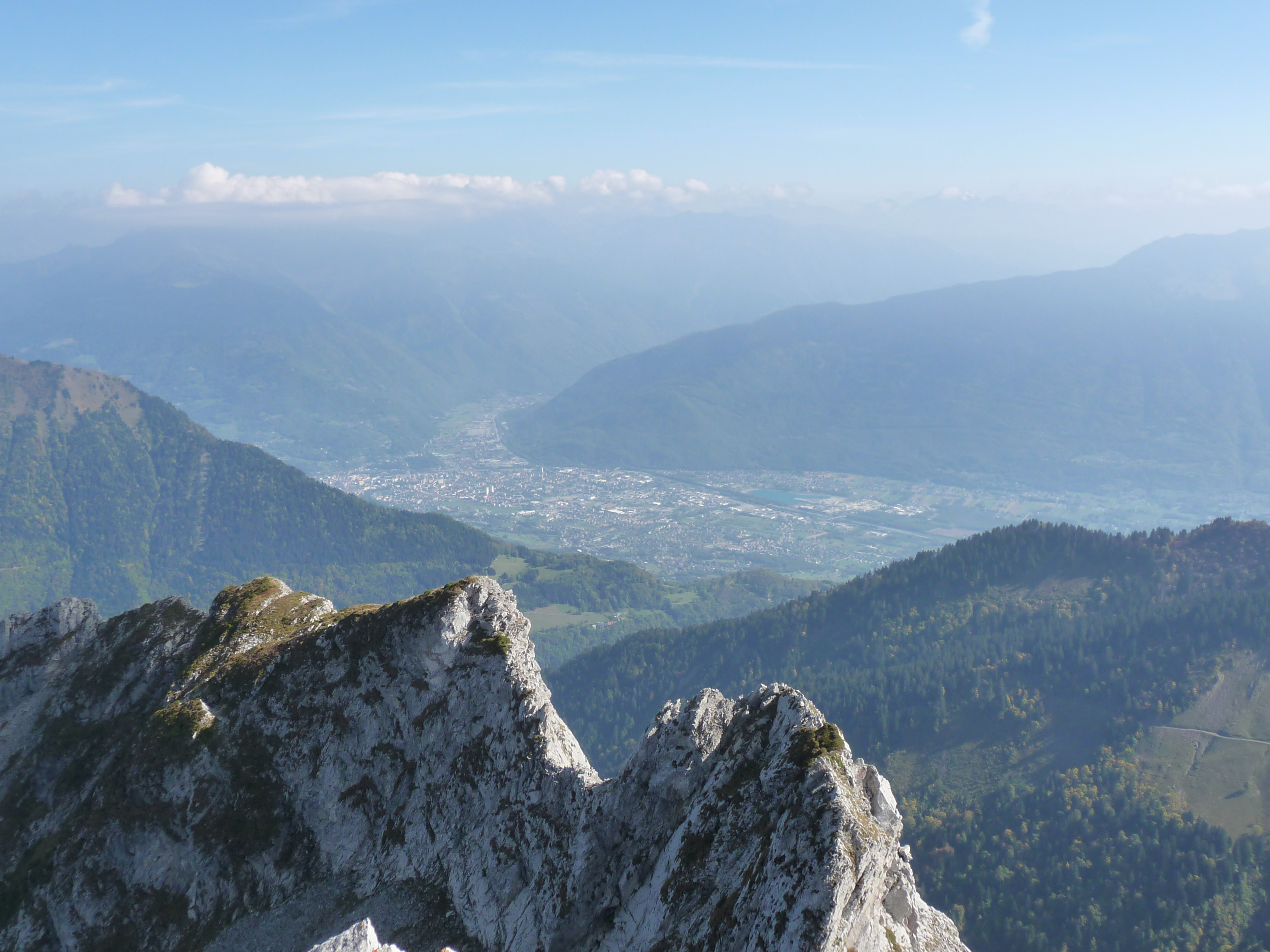 Albertville seen from Sambuy